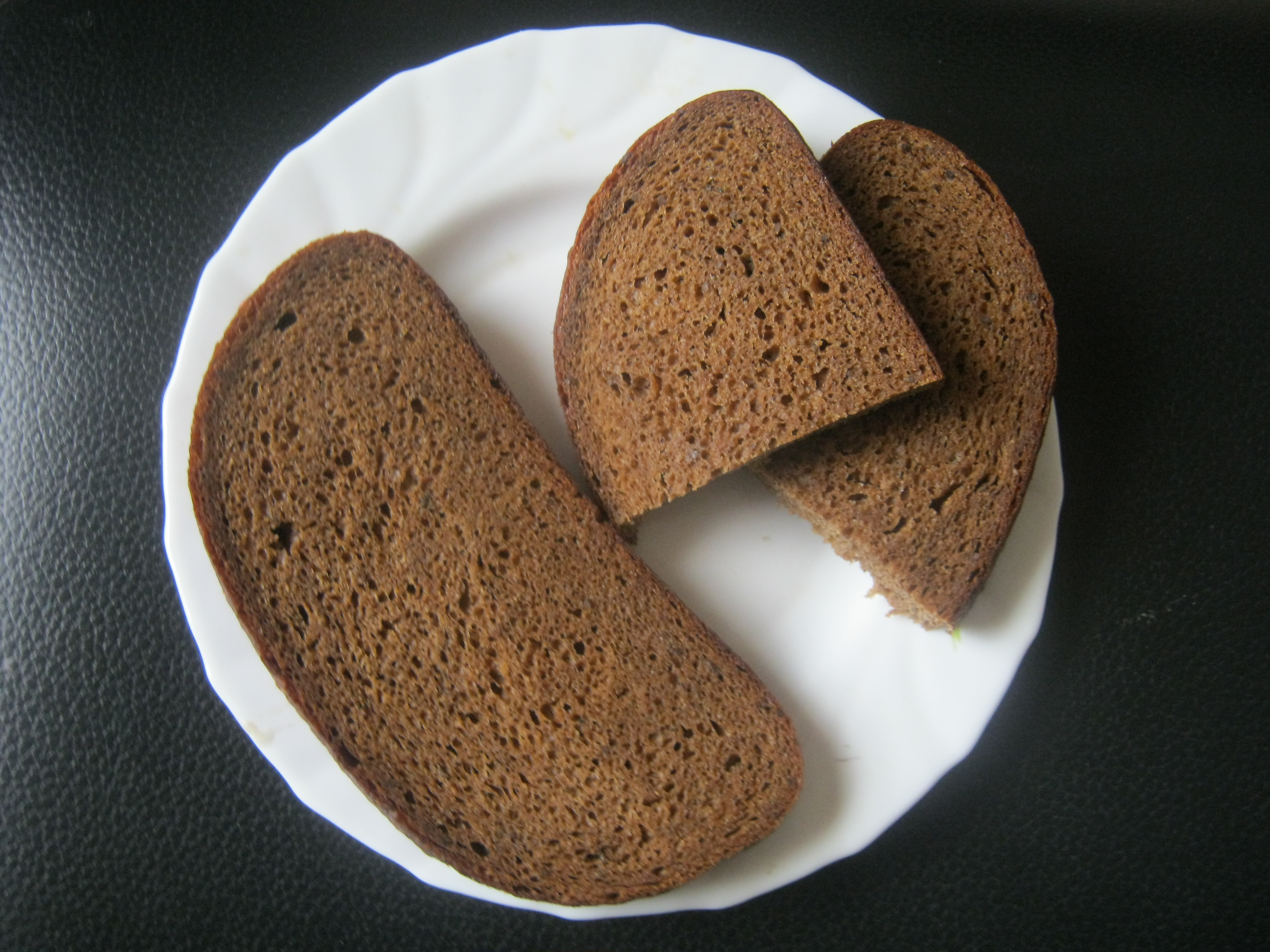 Lithuanian bread